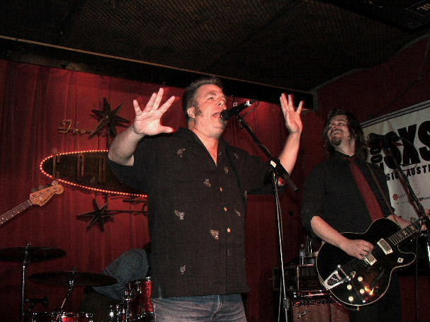 Mojo Nixon at Continental Club in Austin, Texas during South by Southwest (2006). Photo by Ron Baker.